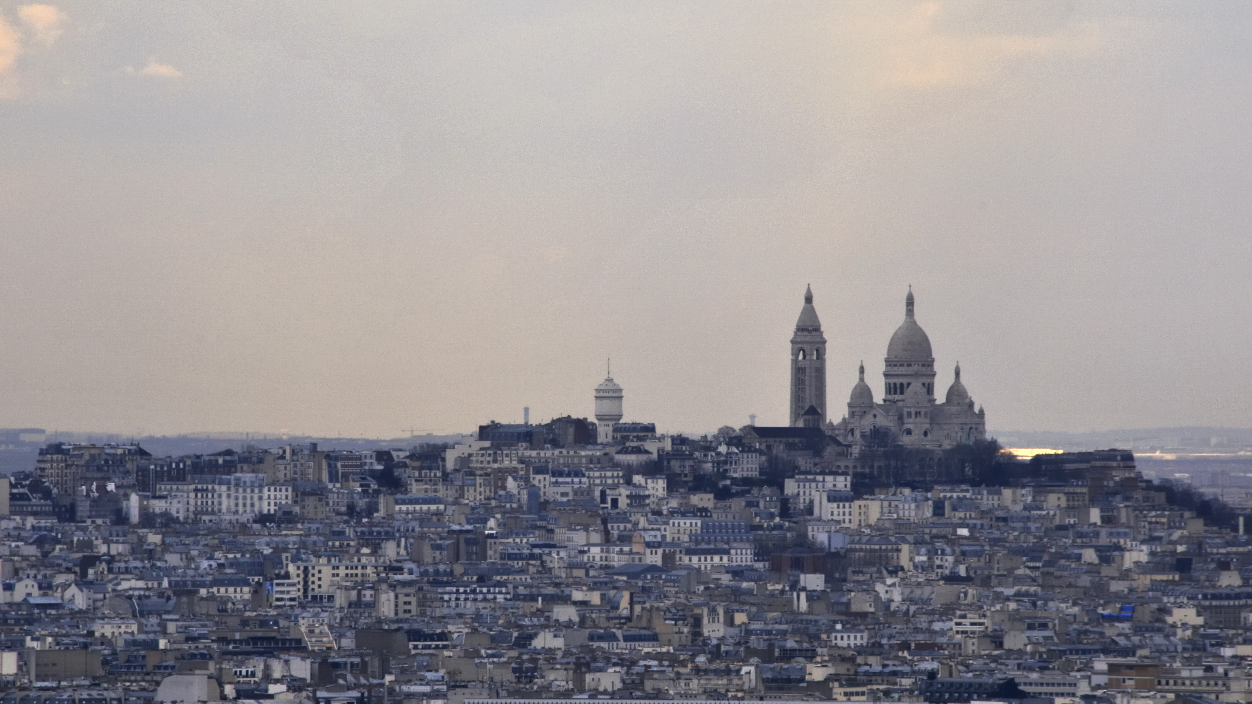 OK. WEATHER was bad. overcast. so i Post processed this excessively